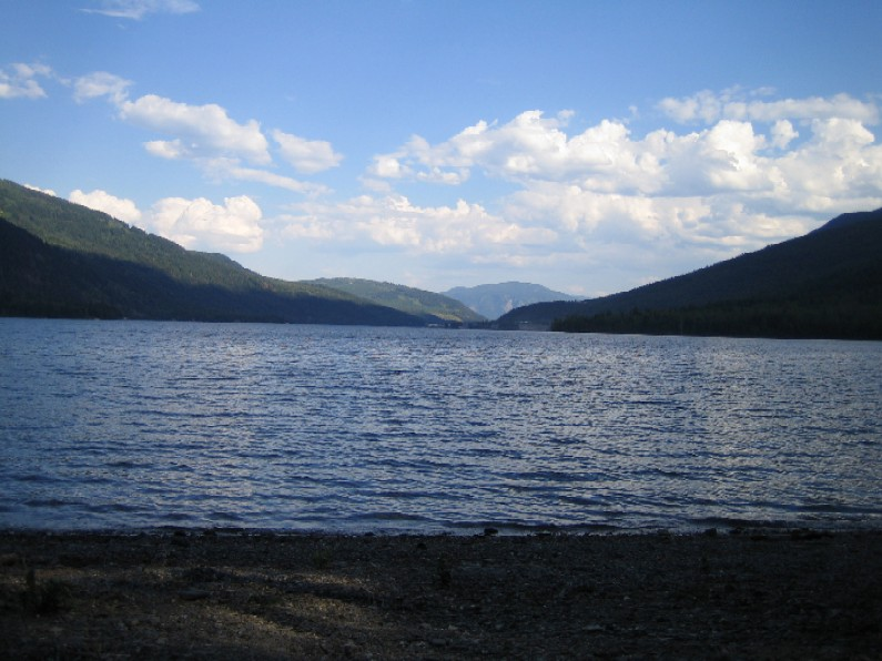 Southern view from Adams Lake Provincial Park with saw mill in distance (center frame).